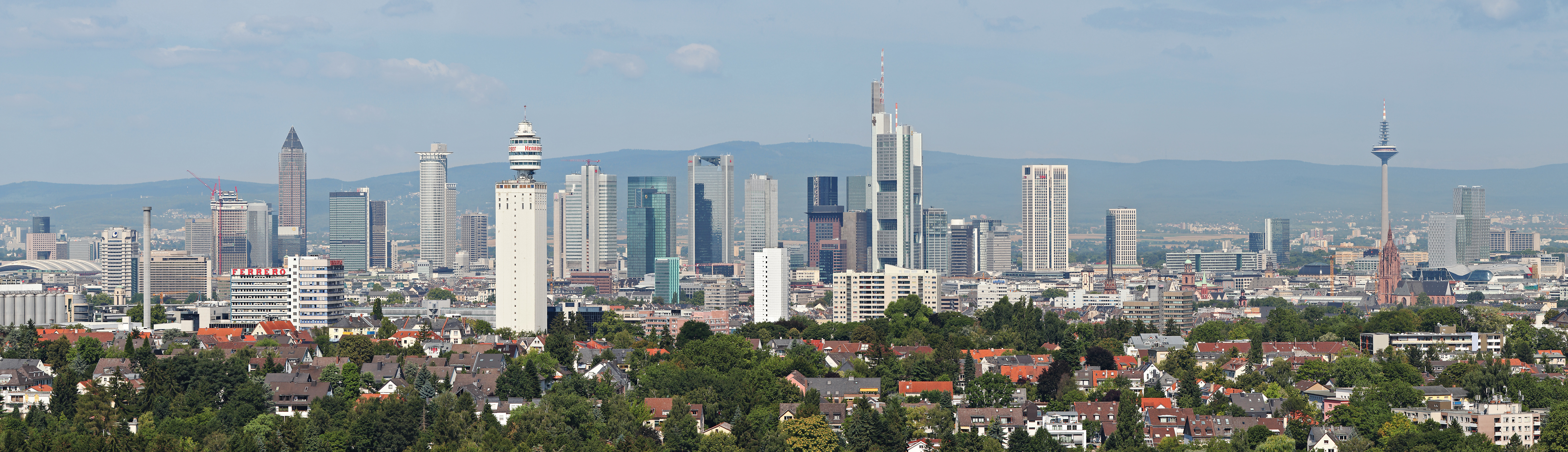 Cityscape of Frankfurt am Main, Germany